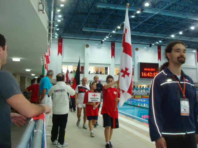 Coach Henry Kuprashvili and Swimmer Nika Tvauri. Antalya, World Games, IBSA, 1-10.04.2011